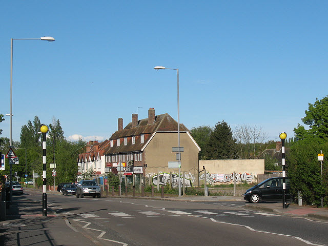 Zebra Crossing on Kingston Vale The crossing is at the junction of Kingston Vale (the main road shown here) and Robin Hood Lane to the right.